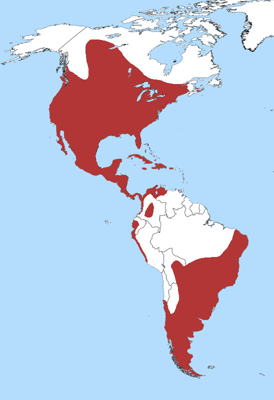 The Distribution of the Pied-billed Grebe